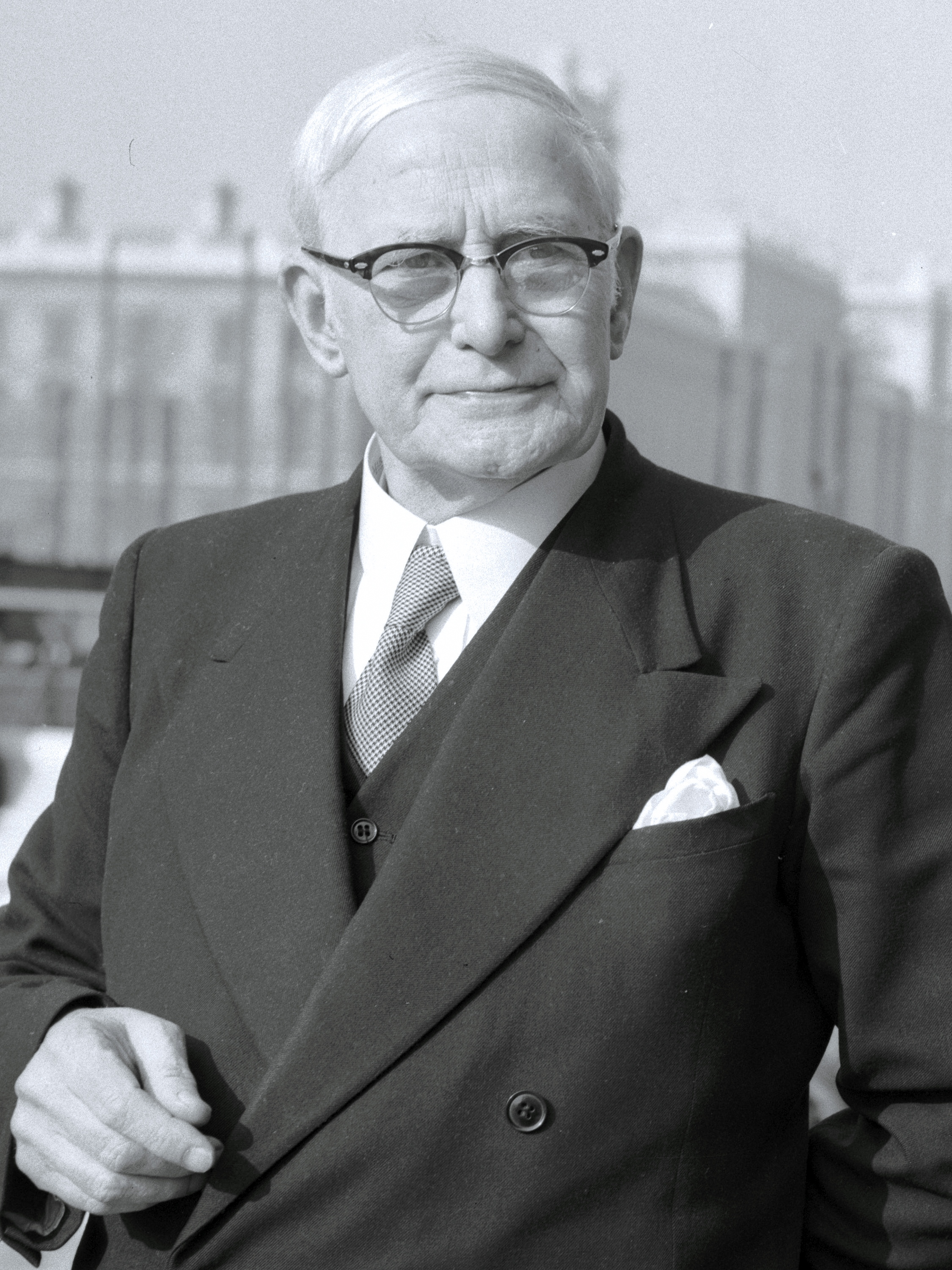 Stephen Owen Davies MP in London